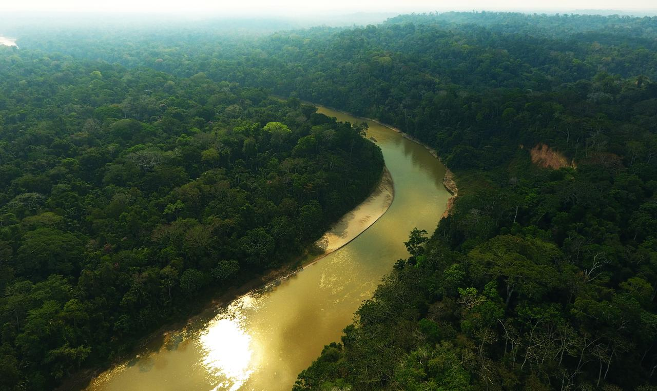 Drone capture of the Las Piedras River